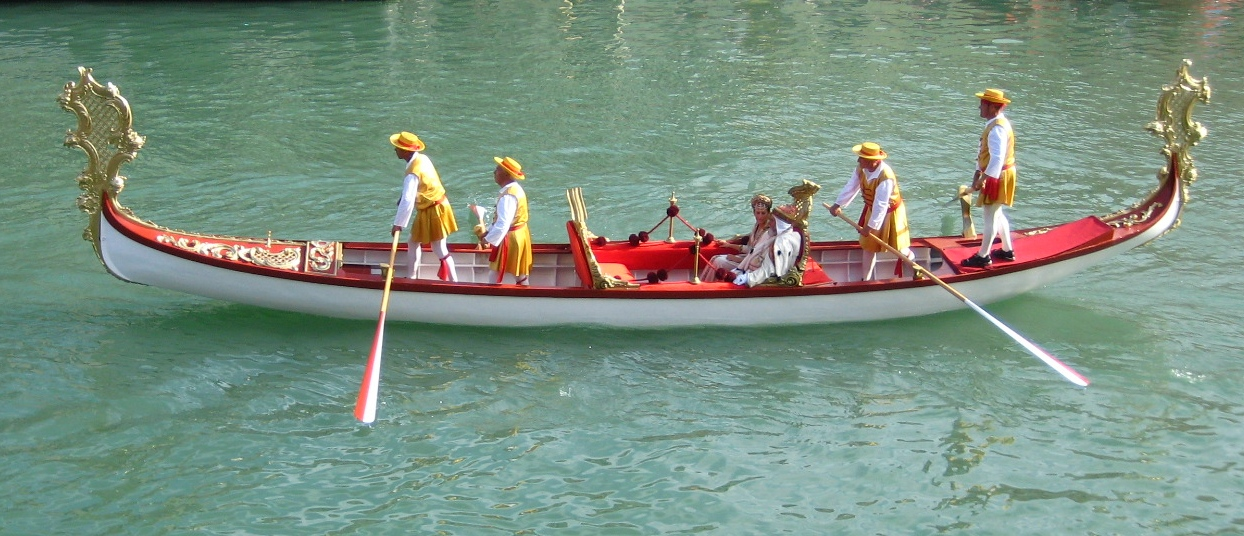 The 2008 edition of the Regata Storica di Venezia, in Venice (Italy), being a regatta in historical costumes.